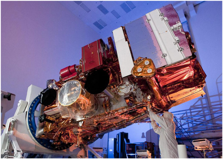 Ball Completes Integration of CrIS Sensor